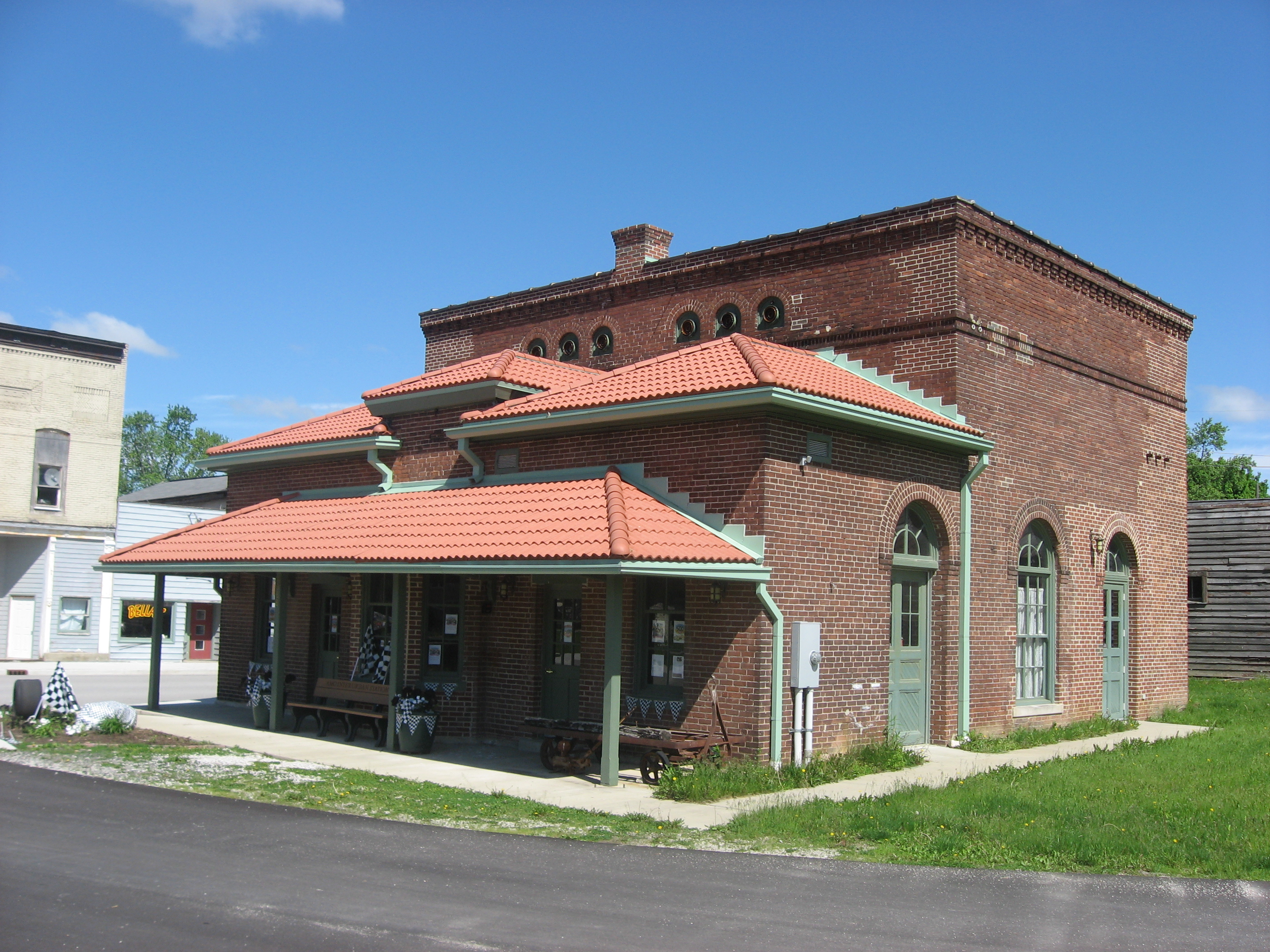 Front and eastern side of the Amo THI & E Interurban Depot/Substation, located at 4988 Railroad Street in Amo, Indiana, United States. Built in 1907, it is listed on the National Register of Historic Places.